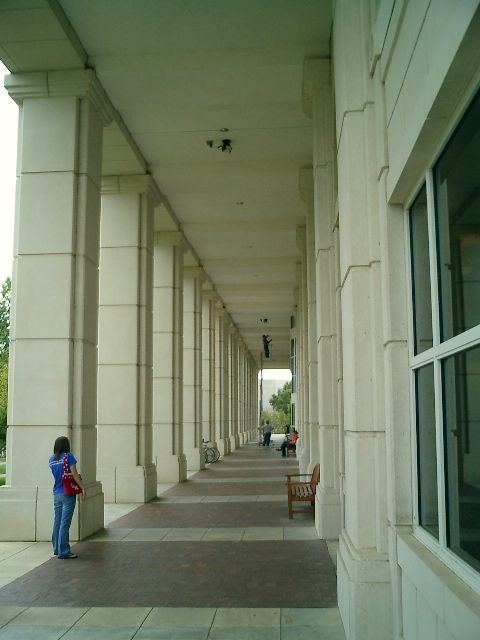 Took this picture myself in 2002 with the handy digital camera. This is a southward looking view on the East side of Mullins. Ross A. Brown